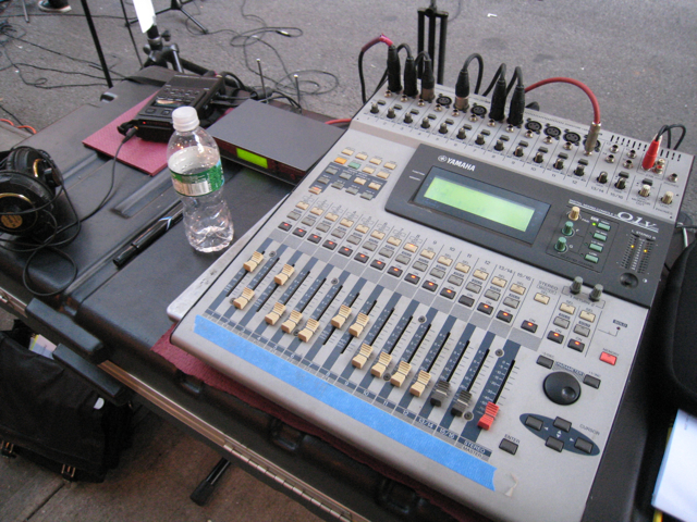 Stop messing up the console!!! This is Patrick Grant's board from his studio at sTRANGE mUSIC Music for a Change: Make Music New York Fest 08 Composers Collaborative inc. on Cornelia Street June 21, 2008